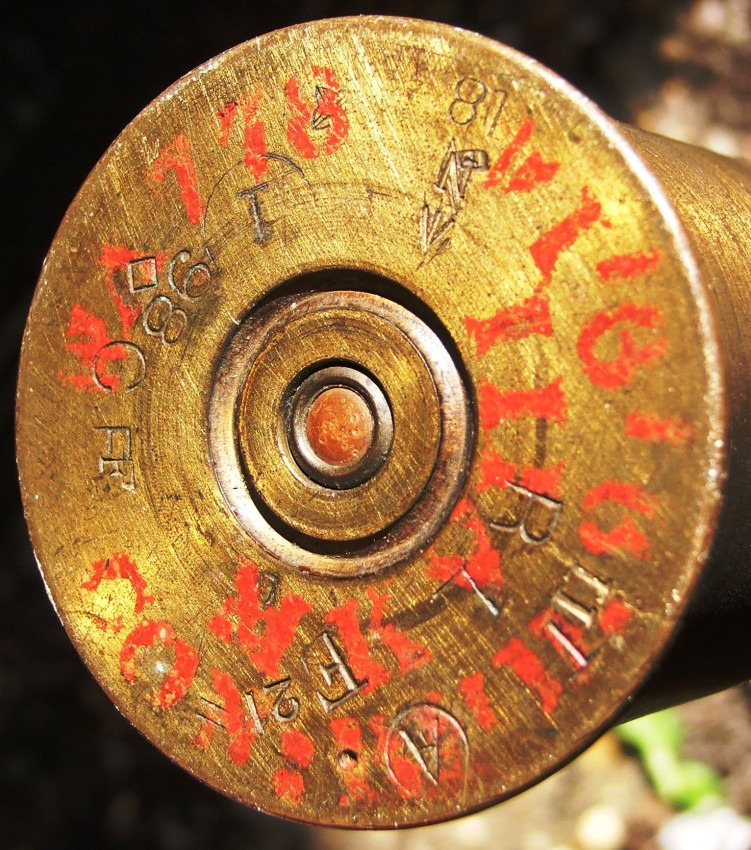 Photograph showing base of British QF 3 pounder Nordenfelt cartridge, 1898. The groove around the primer identifies the cartridge as the Nordenfelt design. The Hotchkiss and Nordenfelt cartridges were otherwise identical and both cartridges were used in both Hotchkiss and Nordenfelt guns. See Image:QF 3 pounder Round with Steel Shell.jpg for complete round. Stampings on base : R L : Manufacturer's initials : Royal Laboratories. A within circle : denotes the cartridge has been annealed after firing, with a single punch denoting this has ocurred once. F21 : denotes batch number of annealing. C FF : C denotes the cartridge has been filled with cordite or ballistite; FF denotes this has occured twice with Full charge. This is the "Life of the case". 1 98 : date of manufacture Stencilled markings in red on base : MK VIII : denotes Mark of complete filled cartridge WA 778 : Lot letter and number of charge